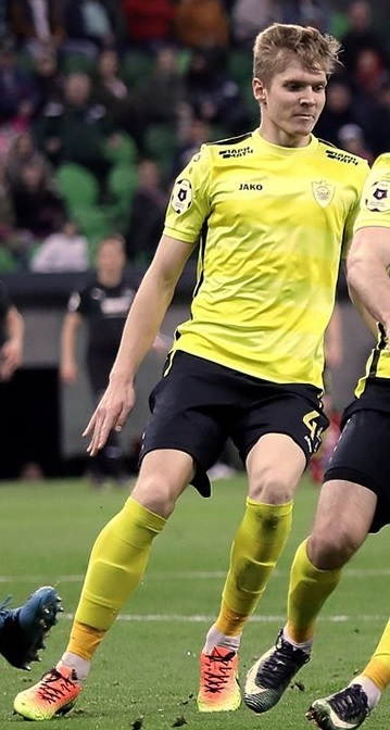 Anton Belov with FC Anzhi Makhachkala in a game against FC Krasnodar.